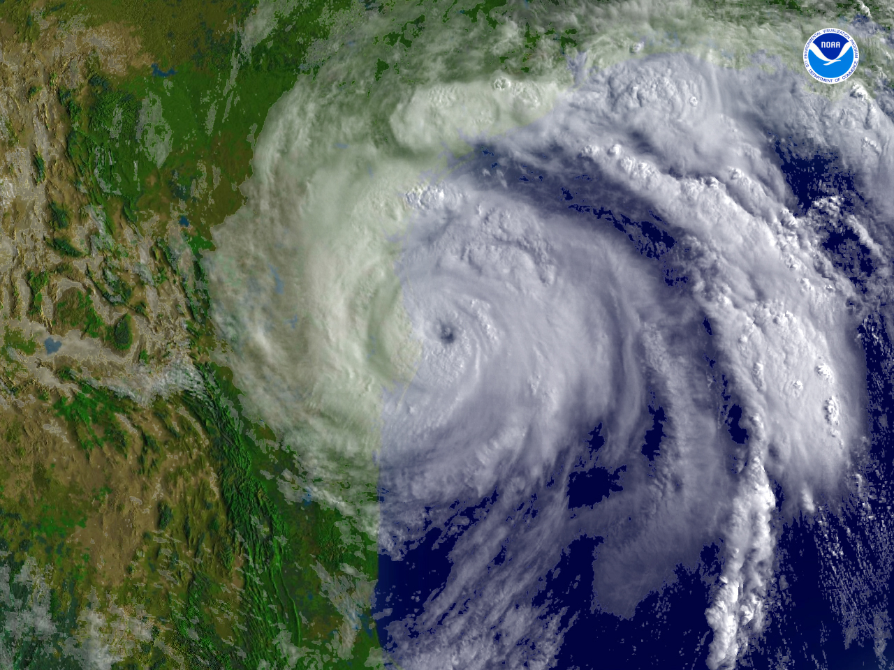 Hurricane Dolly at peak intensity.